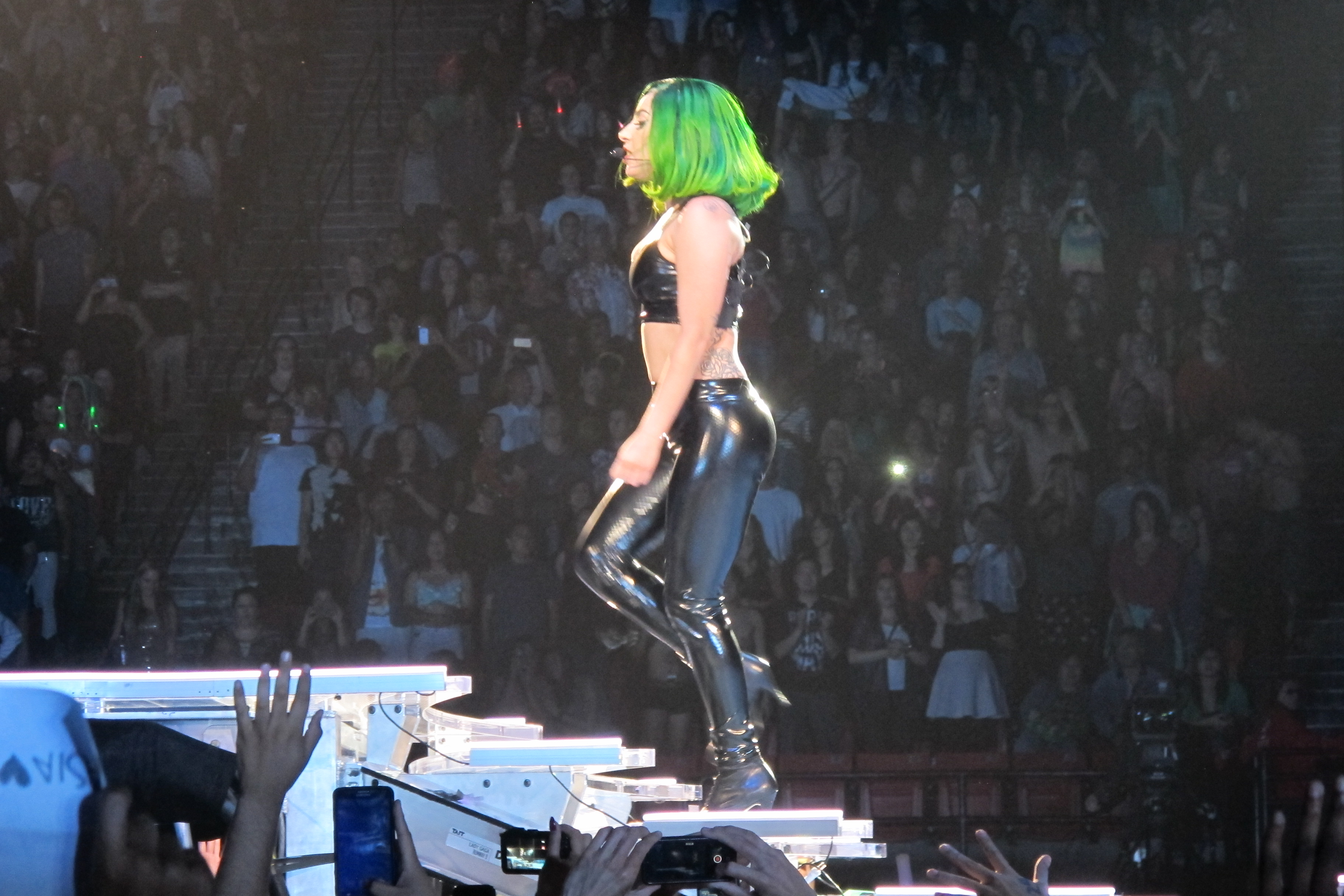 IMG_8300 Lady Gaga performing at ArtRave: The Artpop Ball of San Diego